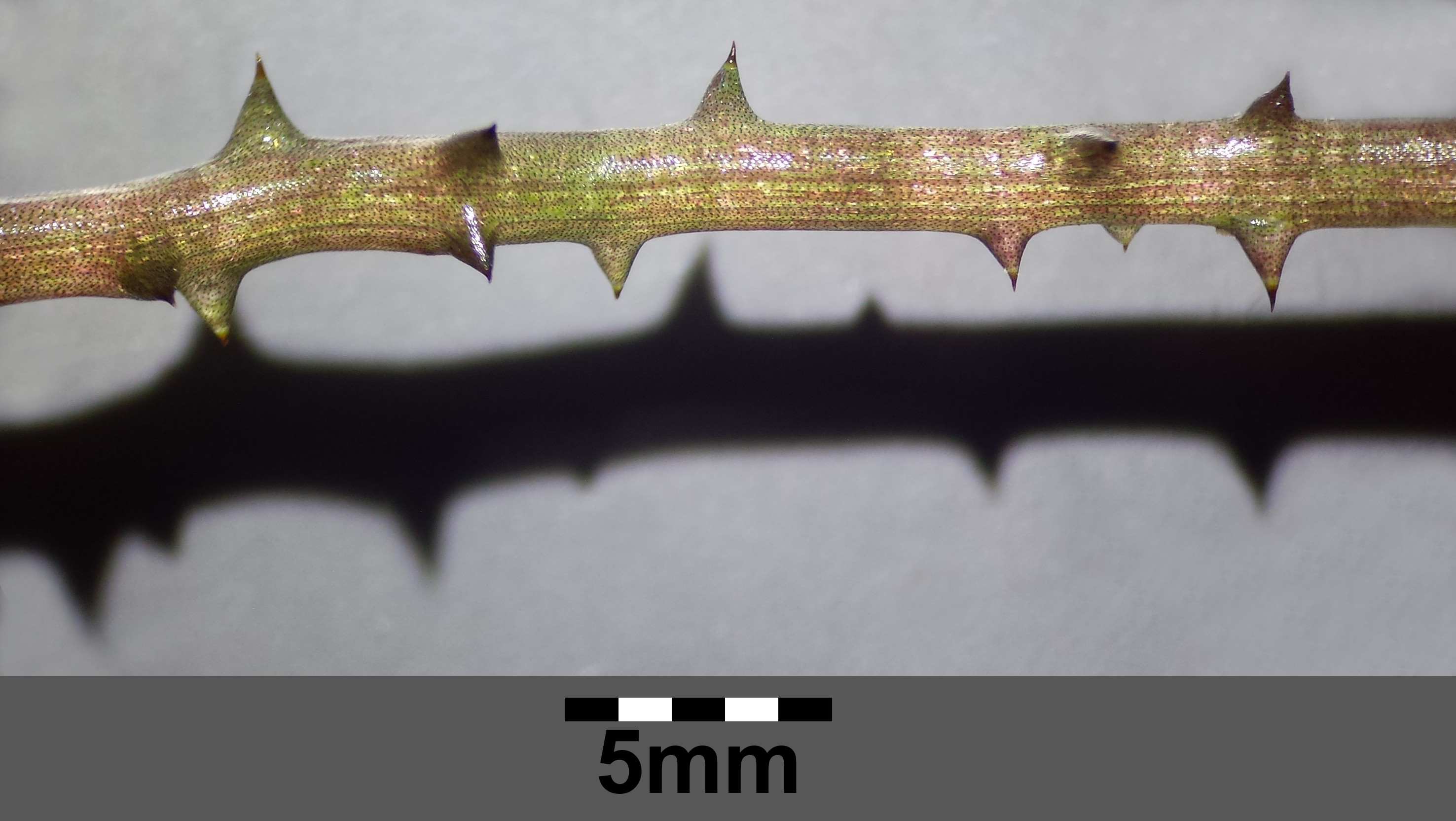 Stipe Taxonym: Najas marina ss Fischer et al. EfÖLS 2008 ISBN 978-3-85474-187-9 Location: Alte Donau, Vienna-Floridsdorf - ca. 160 m a.s.l. Habitat: oxbow lake